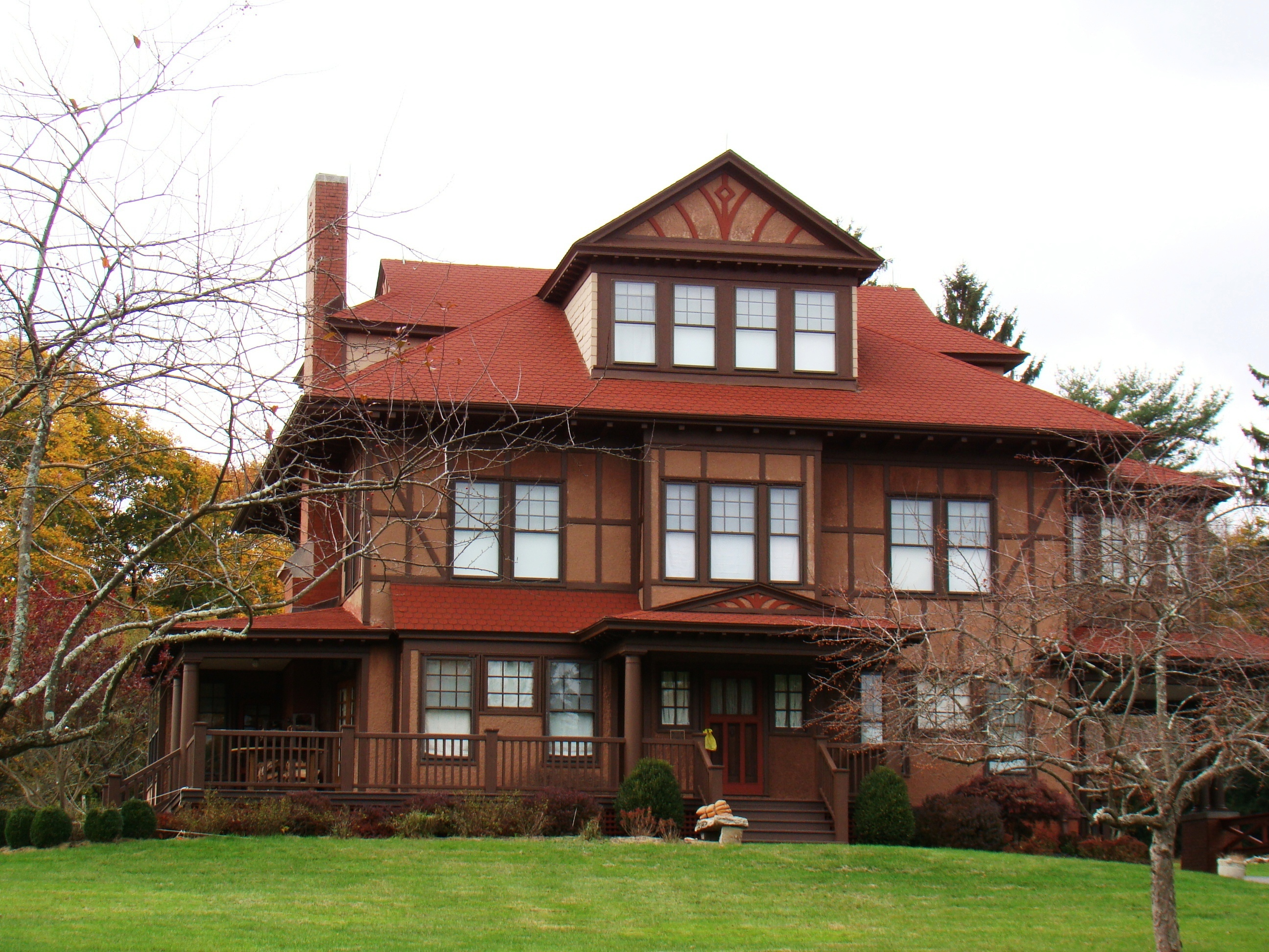 330 Main St., Bozrah/Sprague, CT National Historic Place, March 7, 2007